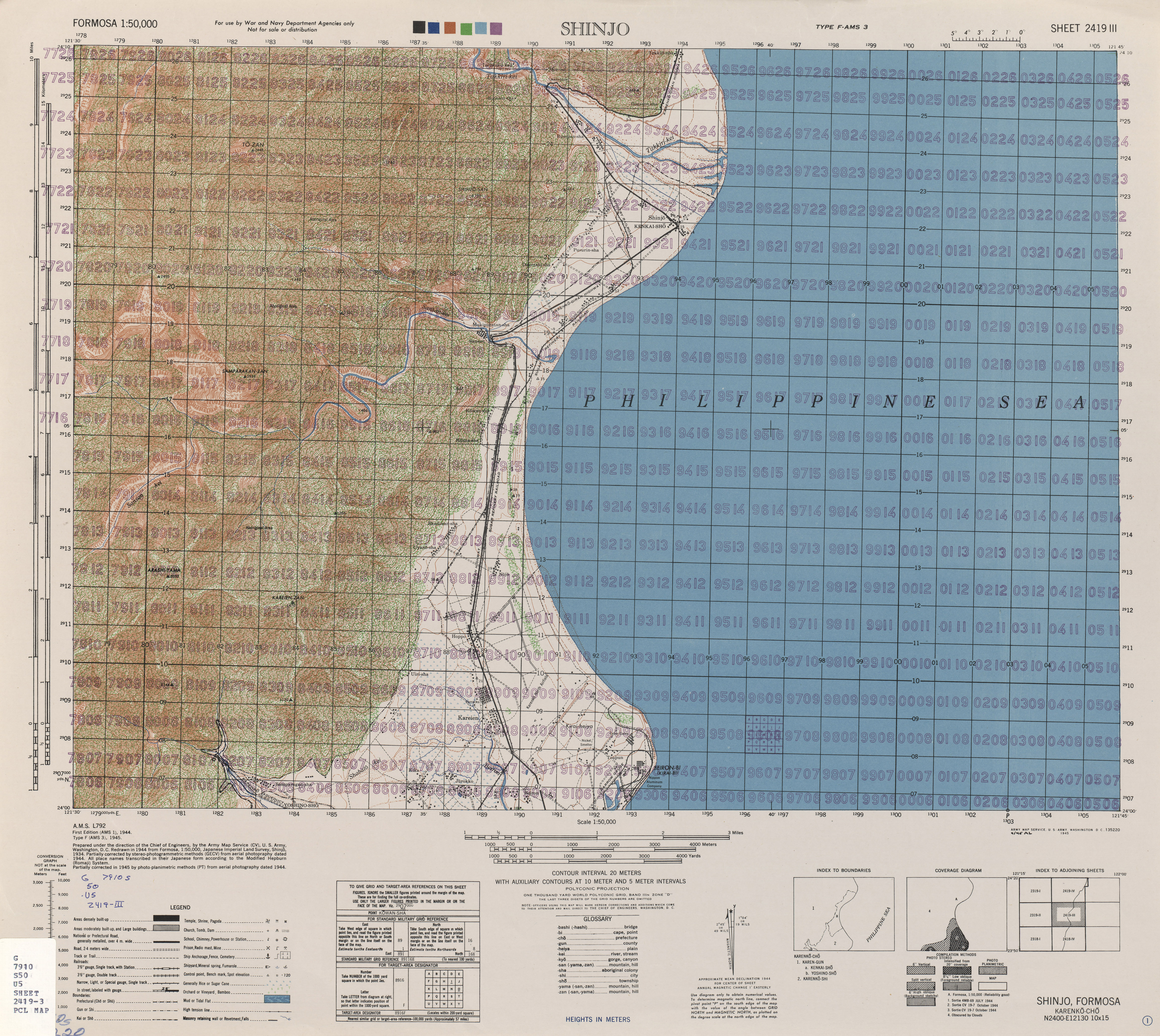 Map from Formosa (Taiwan) 1:50,000 AMS Series L792